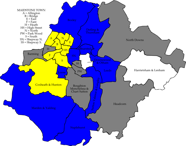 A map of the results of the 2007 Maidstone Council election. Colour legend by wards won: Conservative party Liberal Democrats Independent Wards in grey were not contested in 2007.